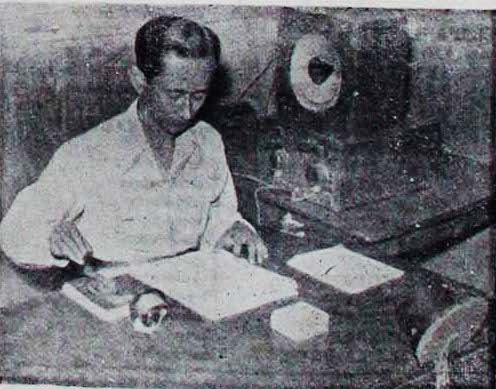 A reporter at work at the ANTARA offices of Indonesia during the Revolution